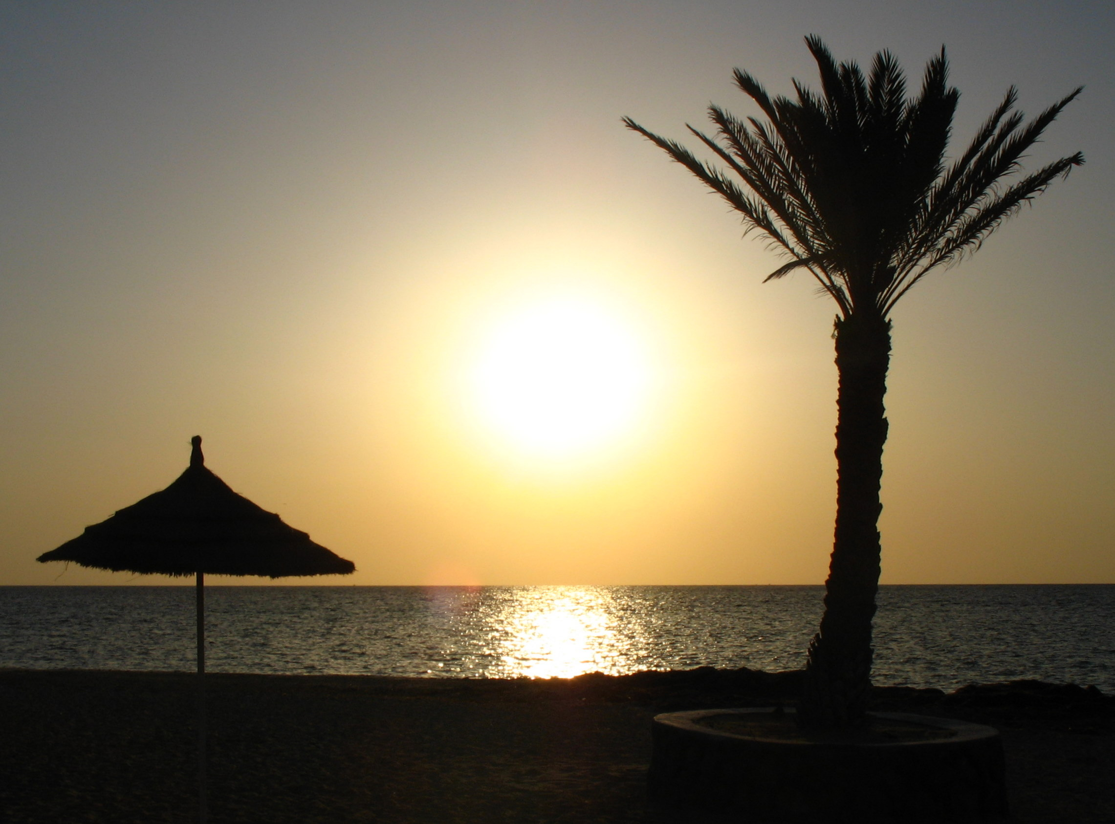 Djerba (Tunisia).